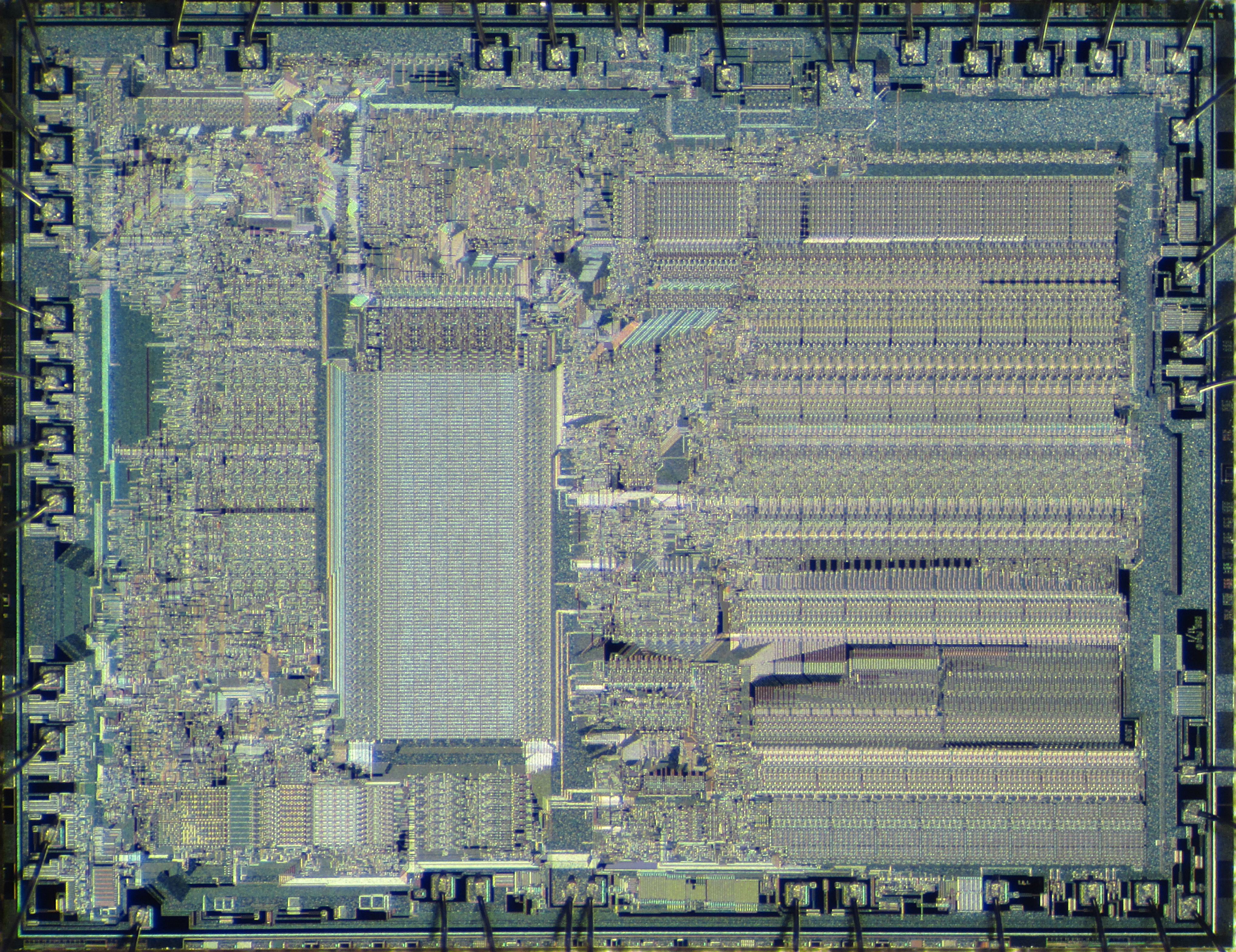 Die shot of Intel 8087 that is a math (floating point) coprocessor chip.